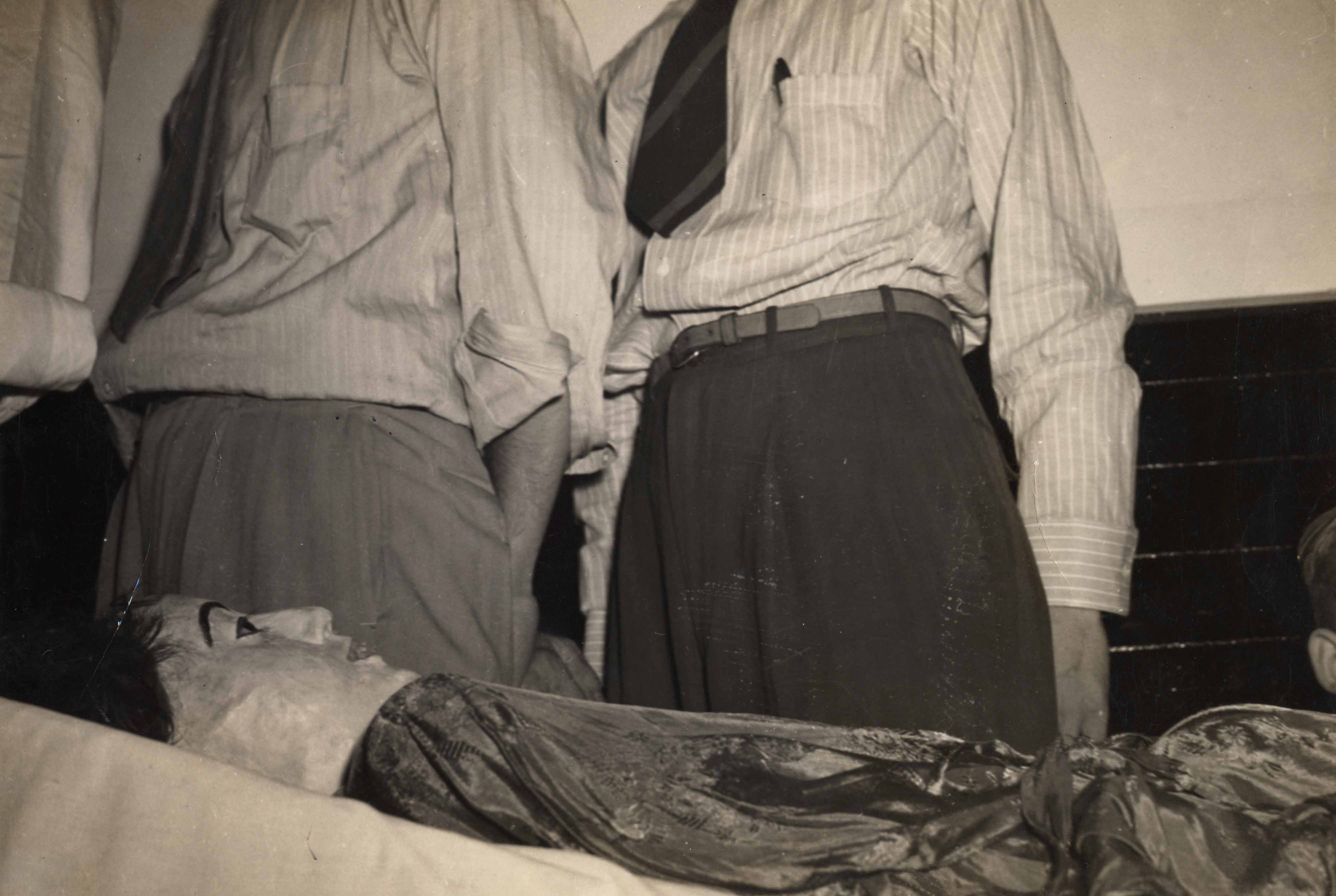 Elena Hoyos body on display at Lopez Funeral Home. Gift Clark Means.